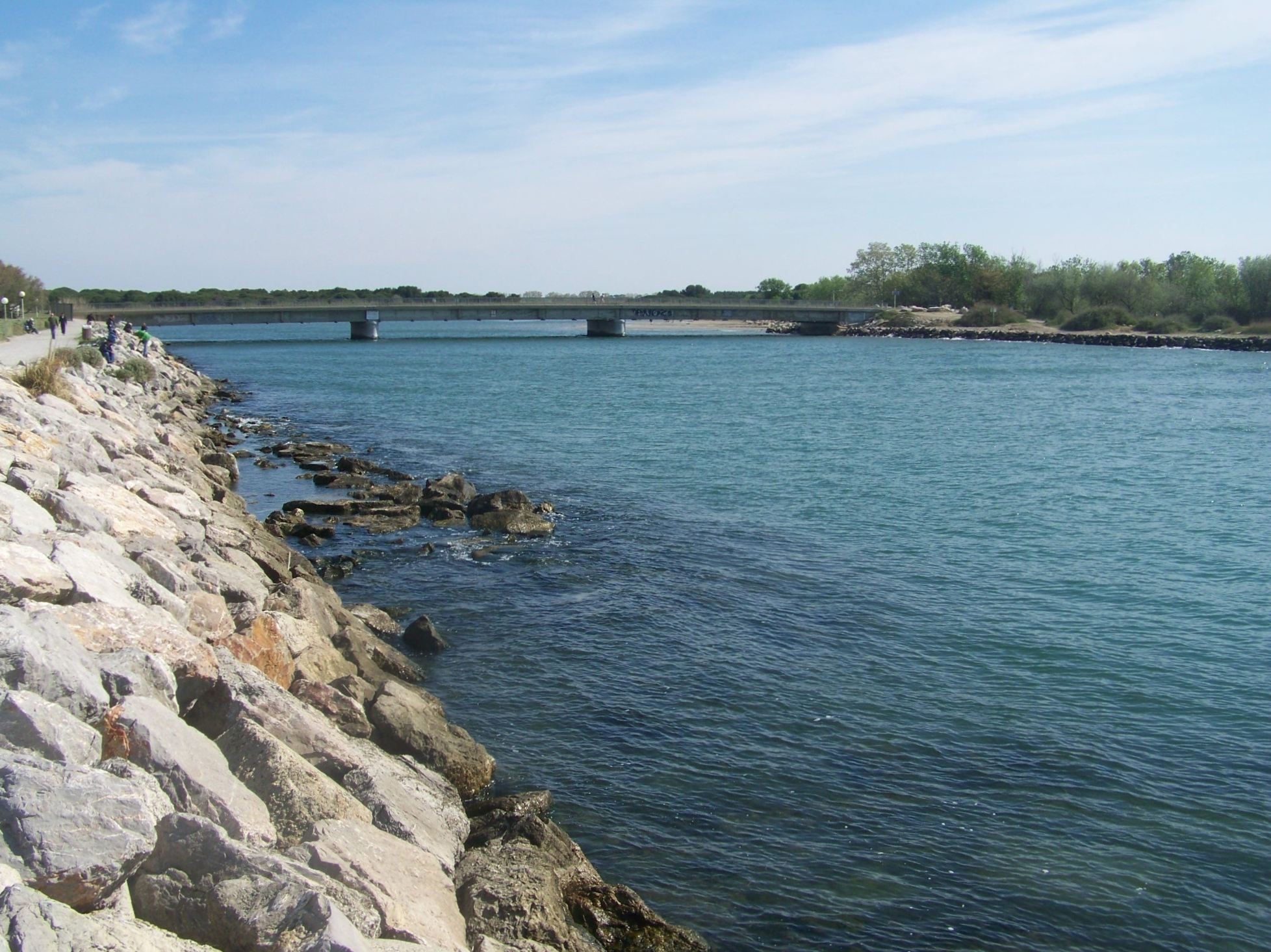 Vidourle river here flowing into the Mediterranean sea (passe des Abymes) and separating communes of la Grande-Motte in Hérault (left) and le Grau du Roi in Gard (right).